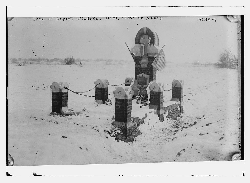 Tomb of aviator O'Connell near Flavy Le Martel in 1918